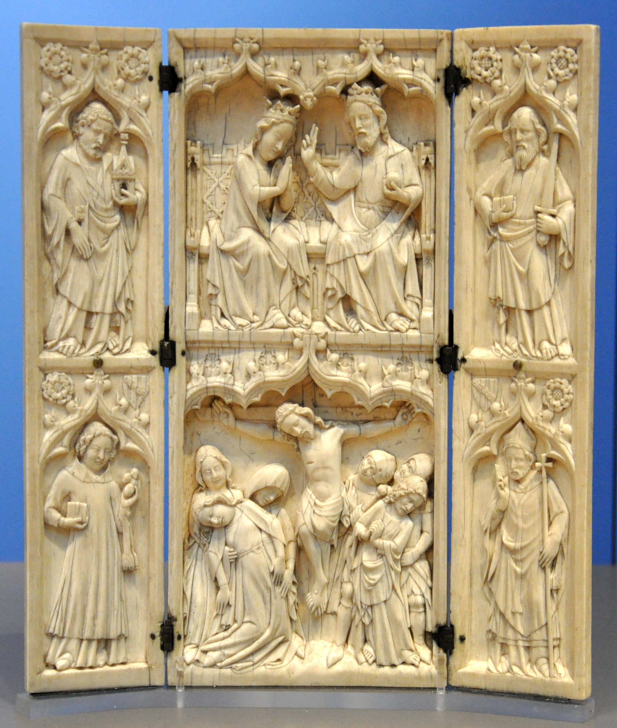 British Museum reference 1861,0416.1 Detailed description John Grandisson Triptych, ivory, England, c. 1330. Three sections, two scenes per section. The triptych has hinges so the outer sections can be folded upon the wide center section for storage or transportation. A superb example of a medieval triptych. The themes of each section are interrelated to explain the connection of daily life with its spiritual and temporal bases and manifest blessings. Its purpose from the perspective of its time period was to aid meditation and prayer by beautifully illustrating truth. Left section - upper scene: Saint Peter holding a church in his left hand and a key in his right hand; lower scene: A young full-faced John Grandisson holding a bible in his right hand and a ____ in his left hand, with his coat of arms at upper right. Center section - upper scene: The King of England and his queen, with his right hand raised in blessing his nation, his left hand holding an orb representing his temporal power; lower scene: Jesus of Nazareth being crucified, thus blessing the world, surrounded by men and women of varied emotions. Right section - upper scene: Saint Paul holding a bible in his dominant hand and a sword in his left hand (a sword of the Spirit); lower scene: An aged gaunt-faced Bishop Grandisson with his right hand raised in blessing in the same manner as the king, blessing his congregant, with his coat of arms at upper left. Location Room 40